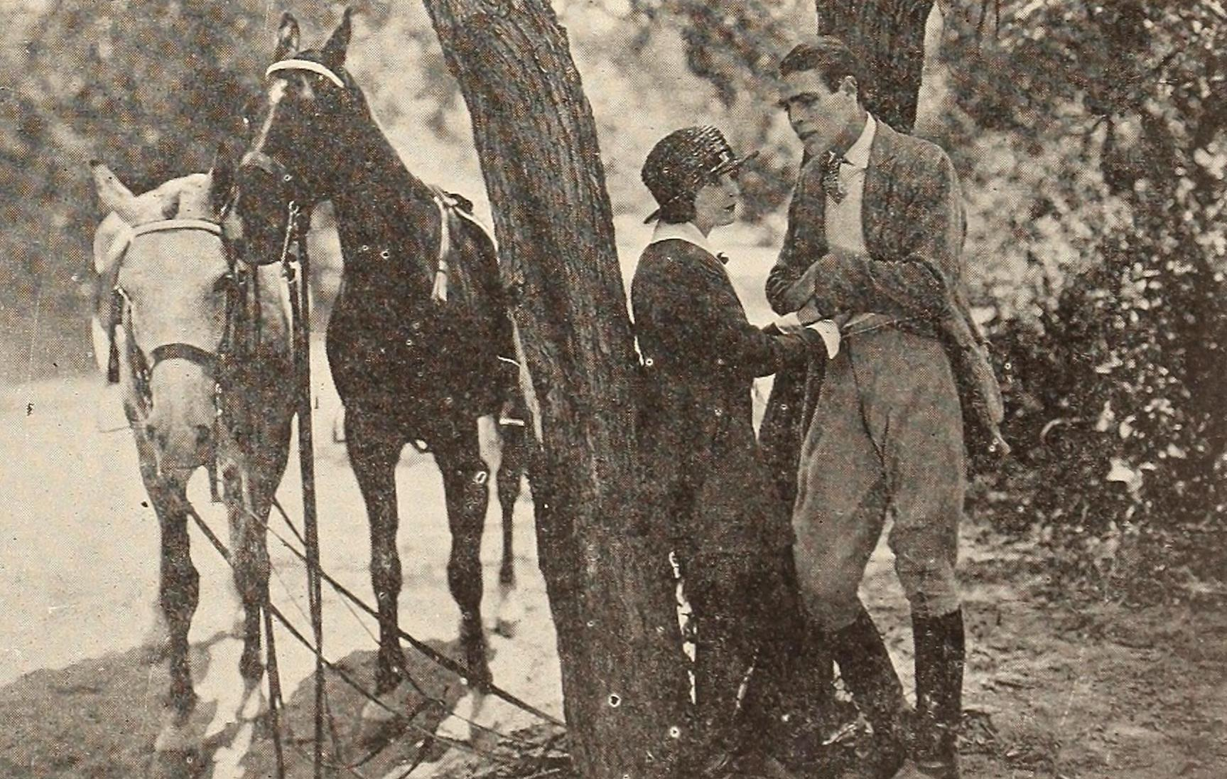 Still from the American film The Jilt (1922) with Marguerite De La Motte and Ralph Graves, on page 27 of the Exhibitor's Trade Review.